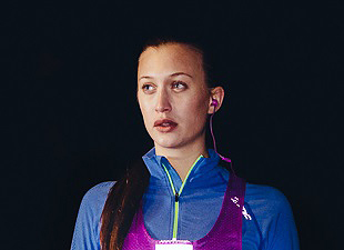 Swedish actress Julia Ragnarsson in an advertising campaign for Stadium.